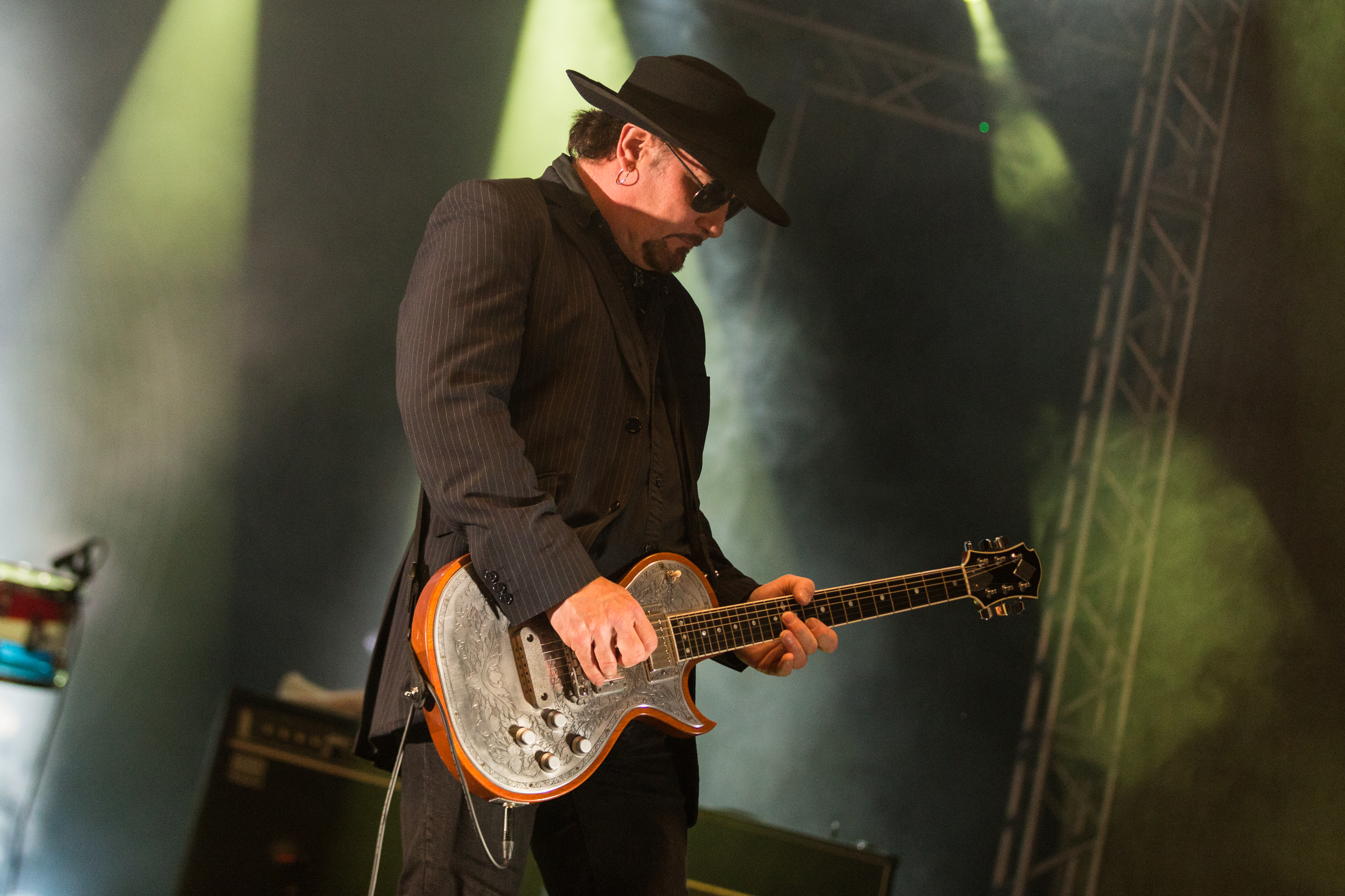 The British gothic rock band The Mission at the Wave-Gotik-Treffen 2017 in Leipzig/Germany (Venue Agra).